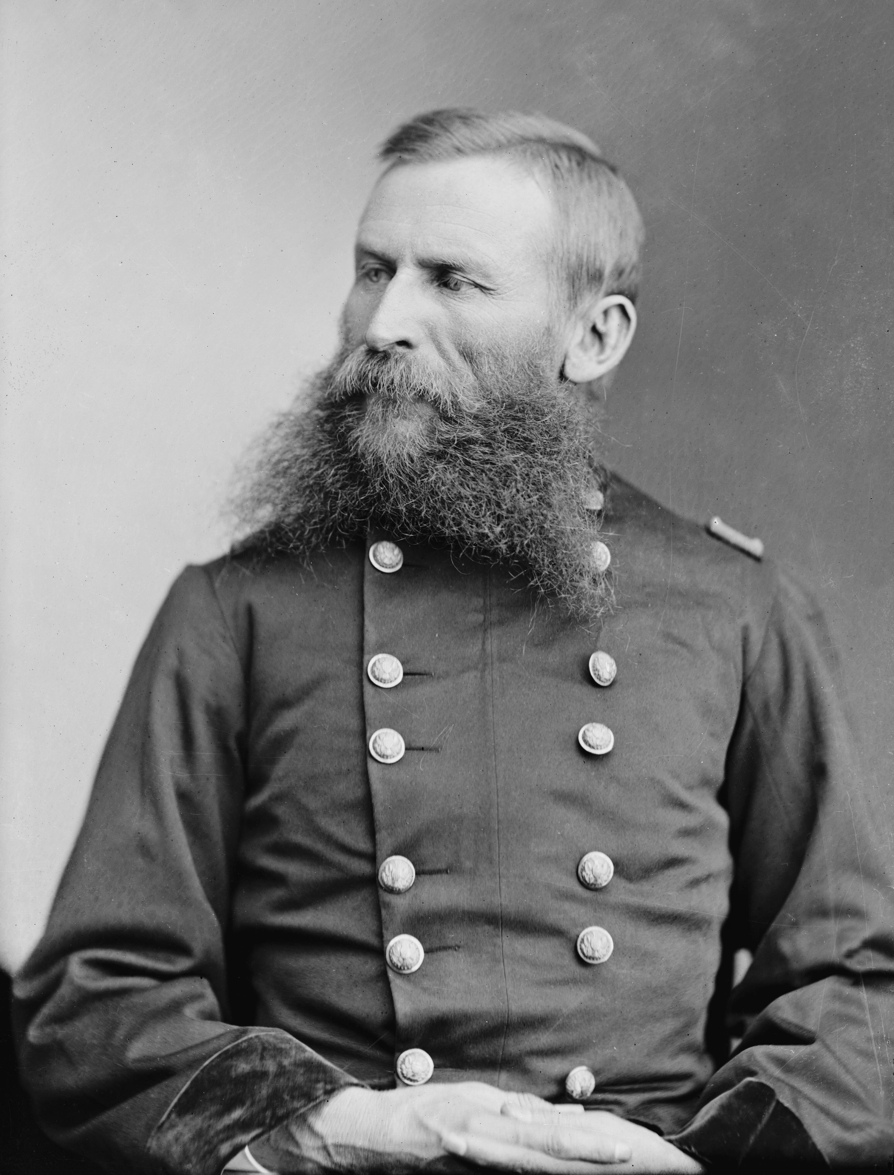 George Crook. Library of Congress description: "Gen. George Crook, U.S.A."